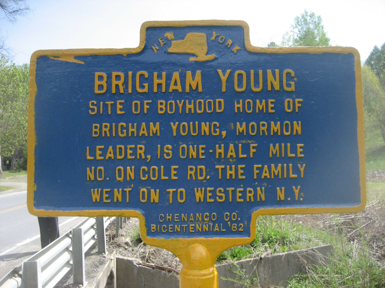 Brigham Young's boyhood home on Cole Road, Smyrna, NY. He became Mormon leader.